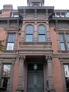 Anderson House in Orange Street Historic District